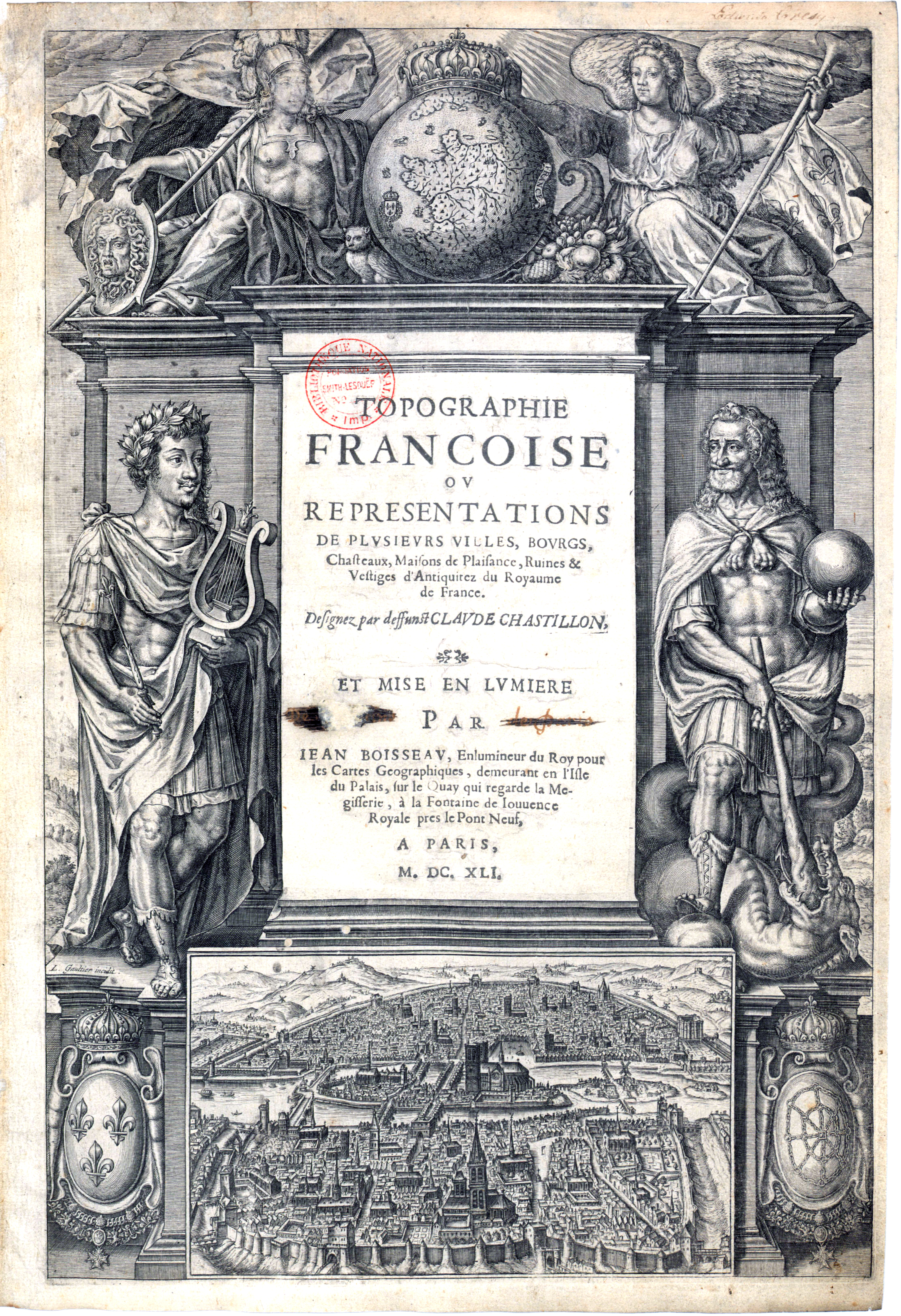 Title page of Topographie françoise, a book of engraved drawings by the French topographer Claude Chastillon, published by Jean Boisseau